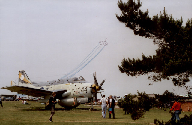 Royal Navy Gannet, XL472, parked on the Grass at RAF Boscombe Down during the 1990 International Air Tattoo. Behind is the crowd line and the Red Arrows can be seen performing their display.